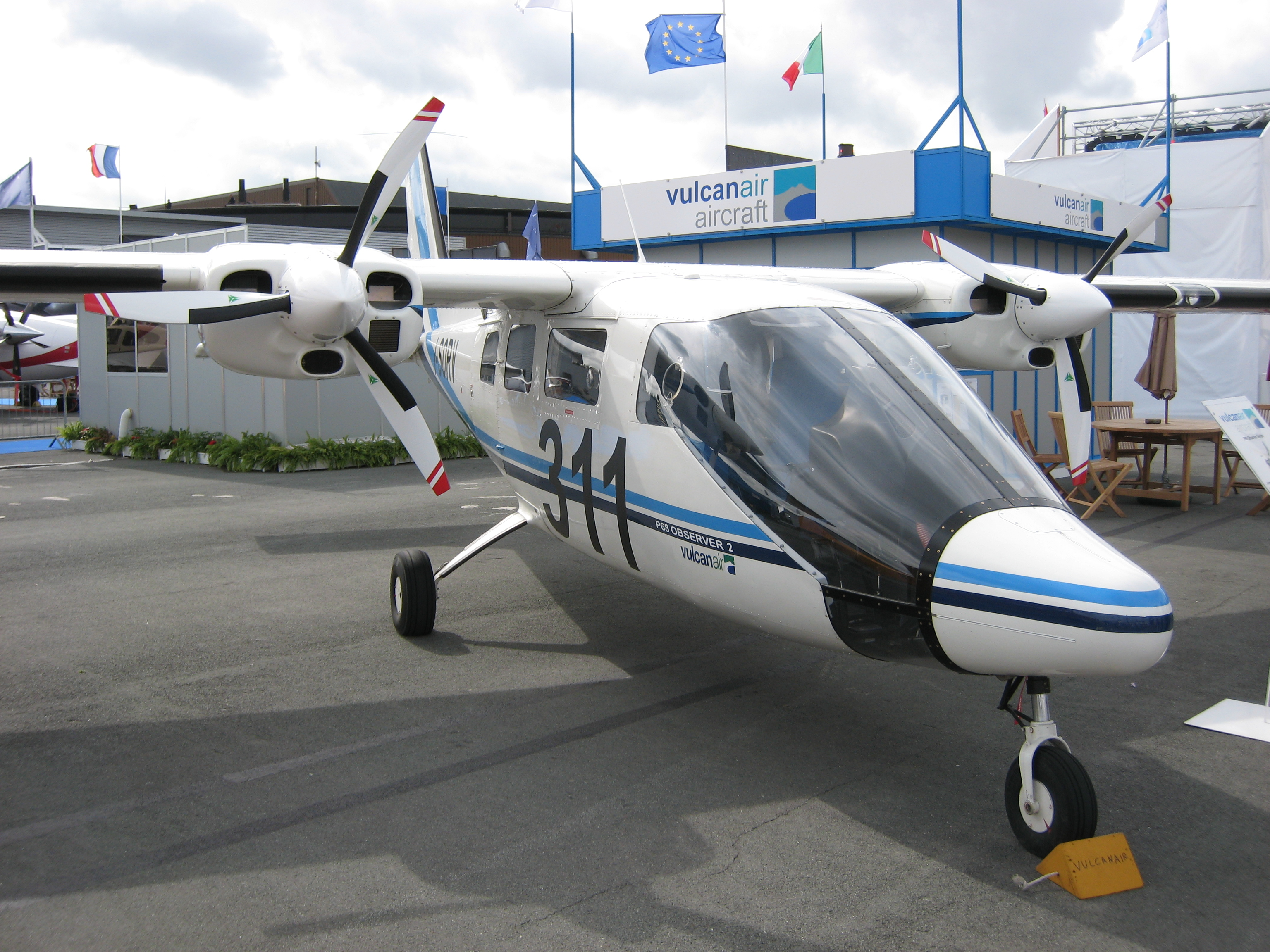 Vulcanair P68 Observer 2 at Paris Air Show 2007